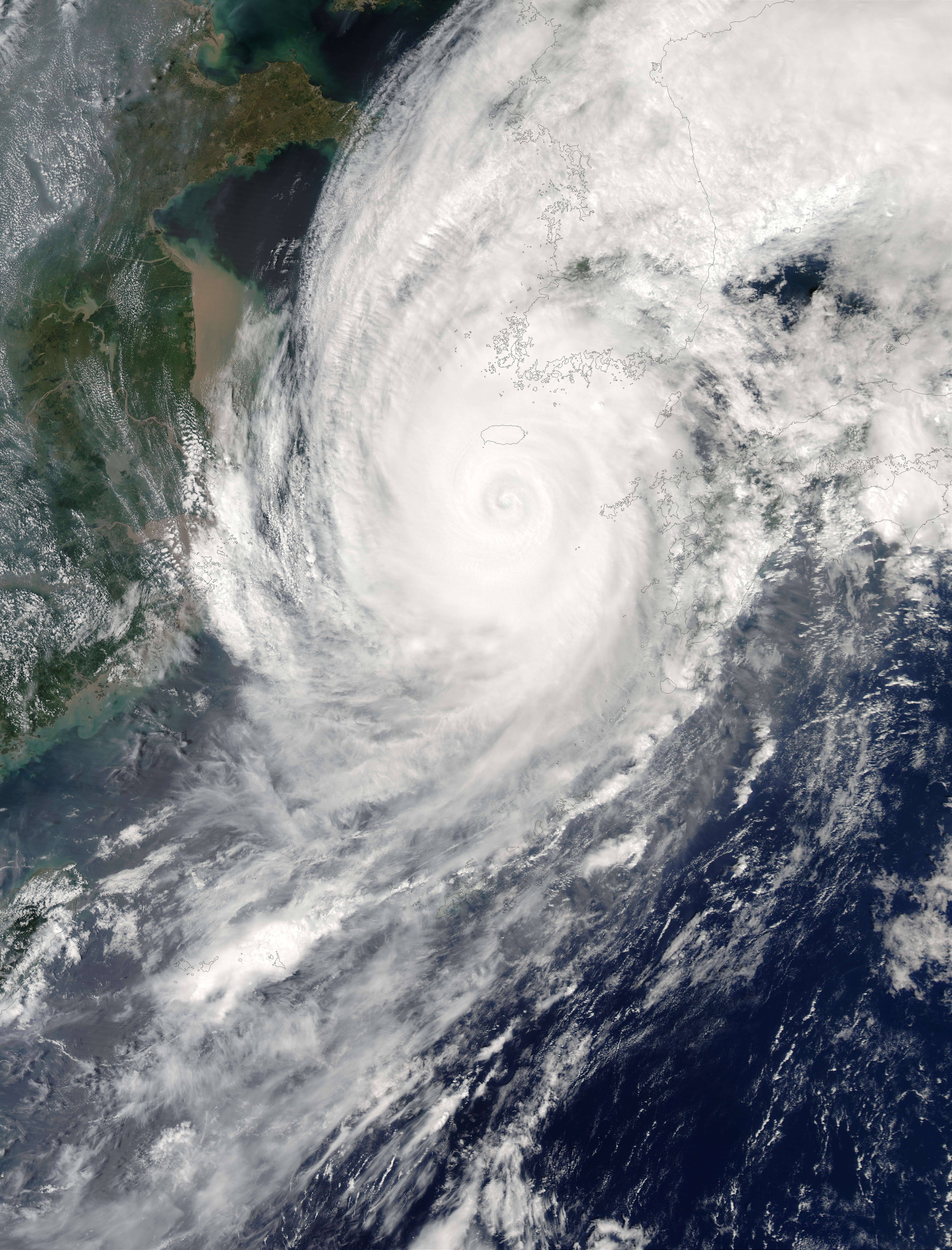 Typhoon Maemi strikes a heavy blow on South Korea in this Moderate Resolution Imaging Spectroradiometer (MODIS) image captured by the Aqua satellite on 12 September 2003, at 1:55 pm, local time. With sustained winds of 135 miles per hour, the storm was the strongest to hit South Korea since records began. Media reports say that at least 104 people died in the storm. Maemi is the Korean name for a cicada that legend says chirps madly to warn of a coming typhoon.